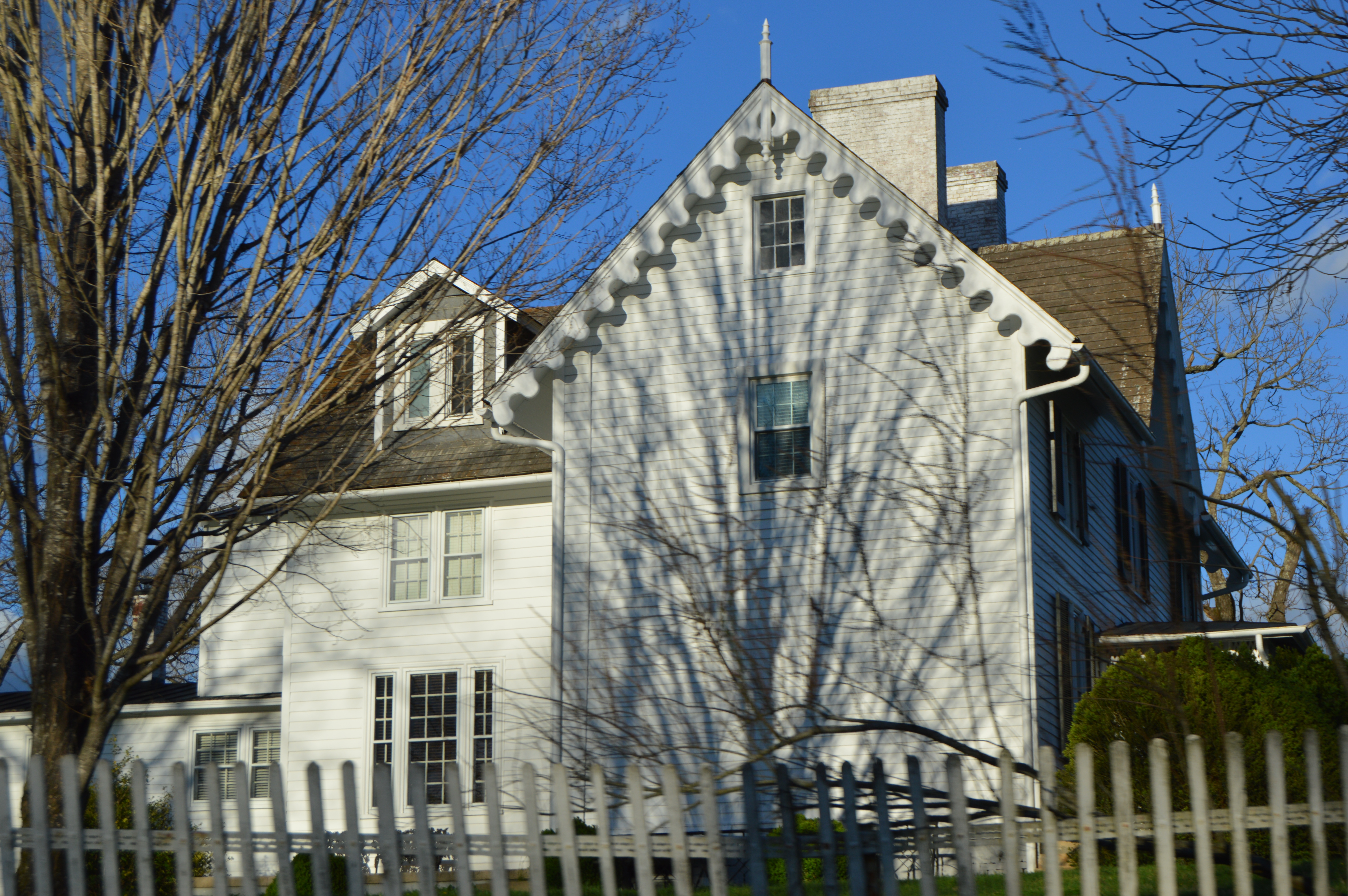 Roadside view of Locust Hill, located at 7408 Wards Road southeast of Altavista in Pittsylvania County, Virginia, United States. Built in 1861, it is listed on the National Register of Historic Places.